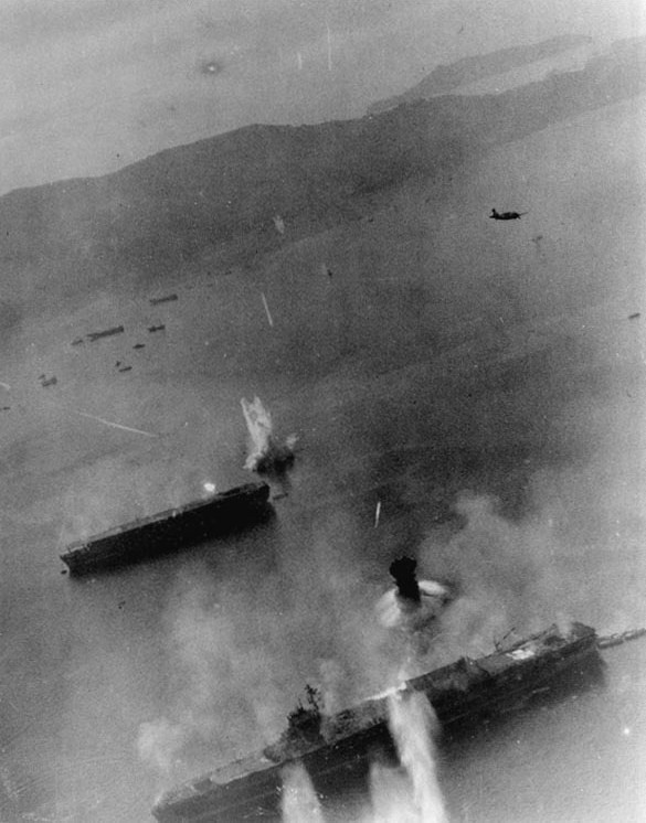 U.S. Navy planes from the aircraft carrier USS Essex (CV-9) attack two Japanese aircraft carriers at Kure, Japan, on 19 March 1945. A Curtiss SB2C "Helldiver" scout bomber is visible in the upper right, painted in Essex markings. The ship at bottom is either Amagi or Katsuragi. The other carrier is Kaiyo.